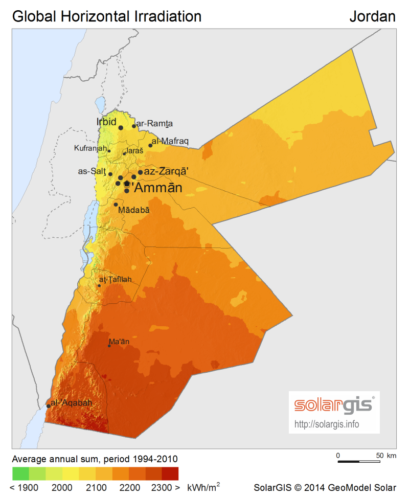 Solar Radiation Map: Global Horizontal Irradiation Map of Jordan, SolarGIS. English version.